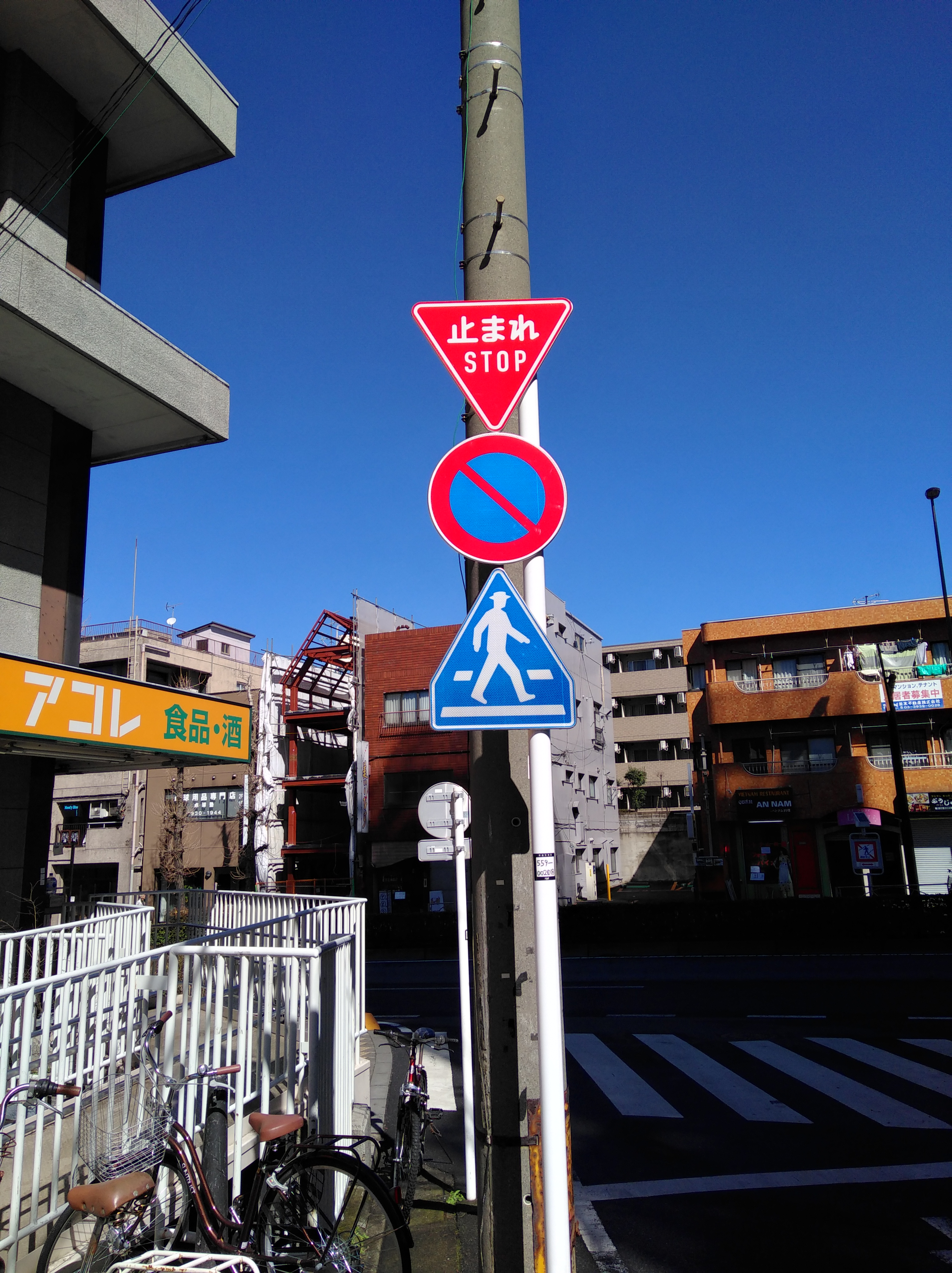 STOP traffic sign in japan was changed in 2017.